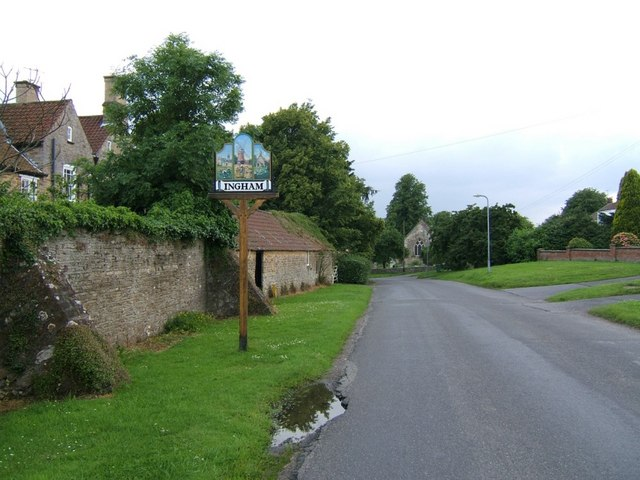 Entering Ingham from the East Looking along the road into Ingham with All Saints Church in the distance. (A North/South grid line passes directly through the centre of this church - verified using GPS).